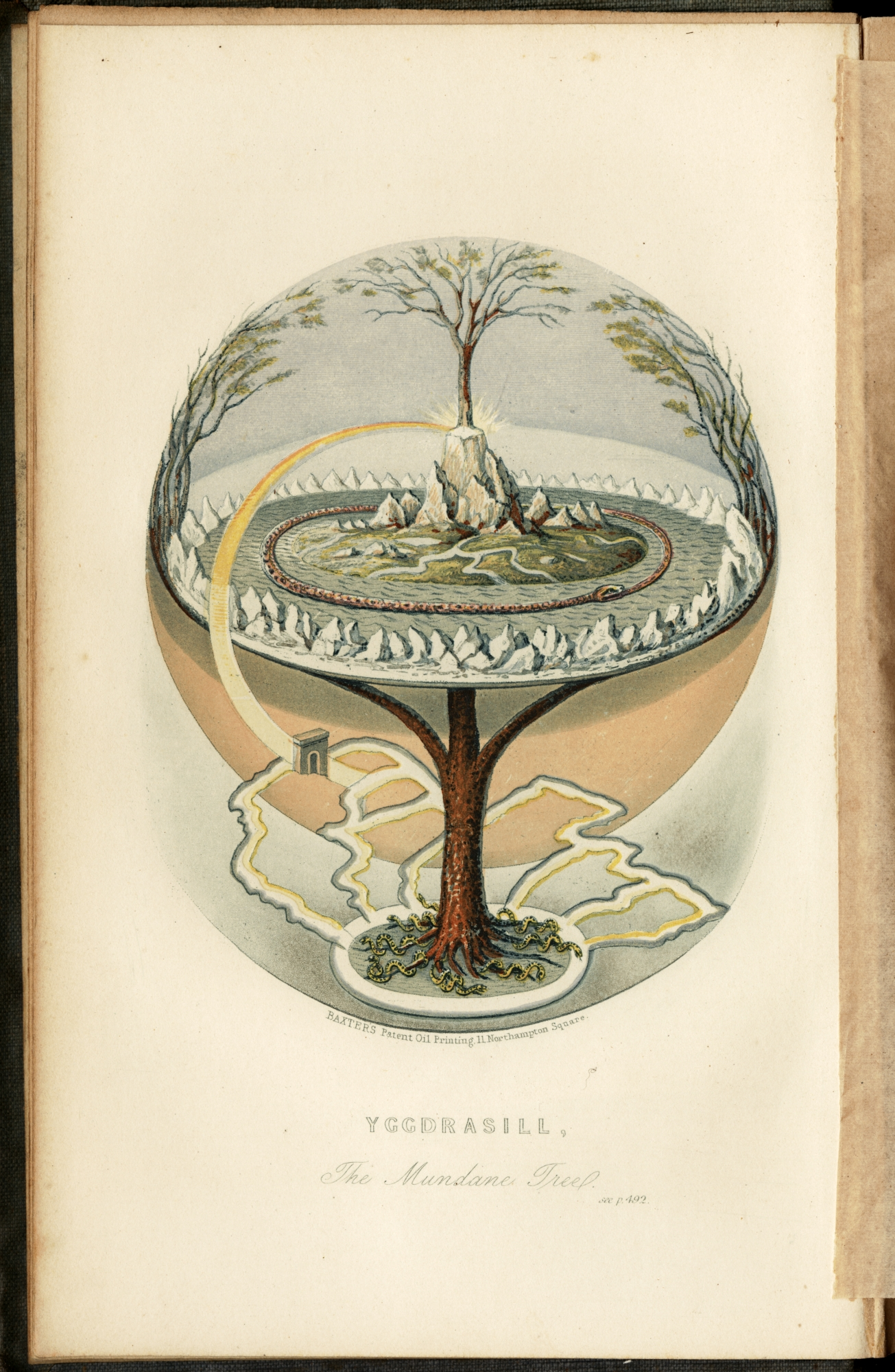 Zoom into at Author: Magnusen, Finn Publisher: Bohn, Henry G. Date: 1859 Location: World Dimensions: 18 x 12 cm Call Number: DL31 .M26 1859